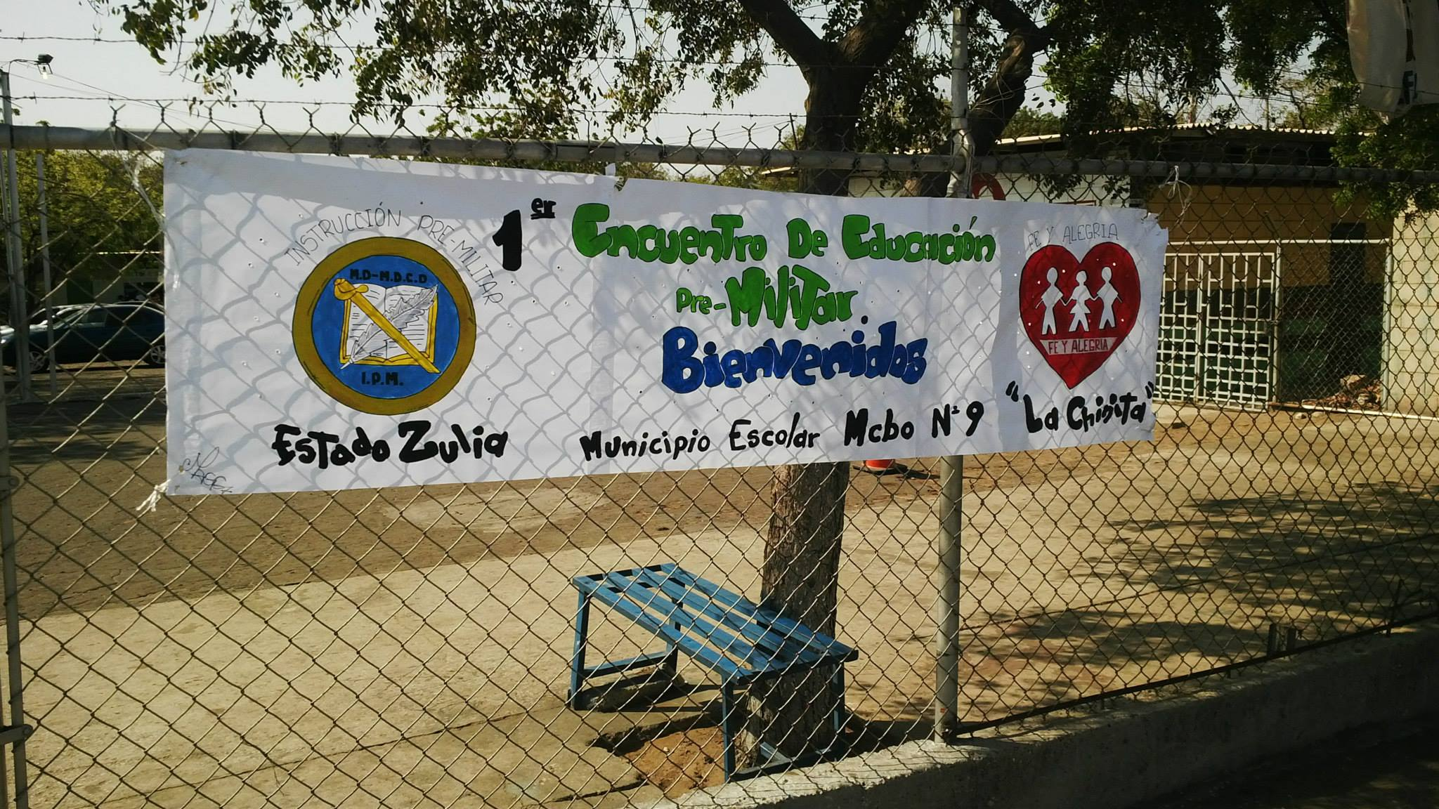 Pancarta en el I Encuentro de Instrucción Premilitar del Municipio Escolar Maracaibo 9, del estado Zulia (Venezuela)